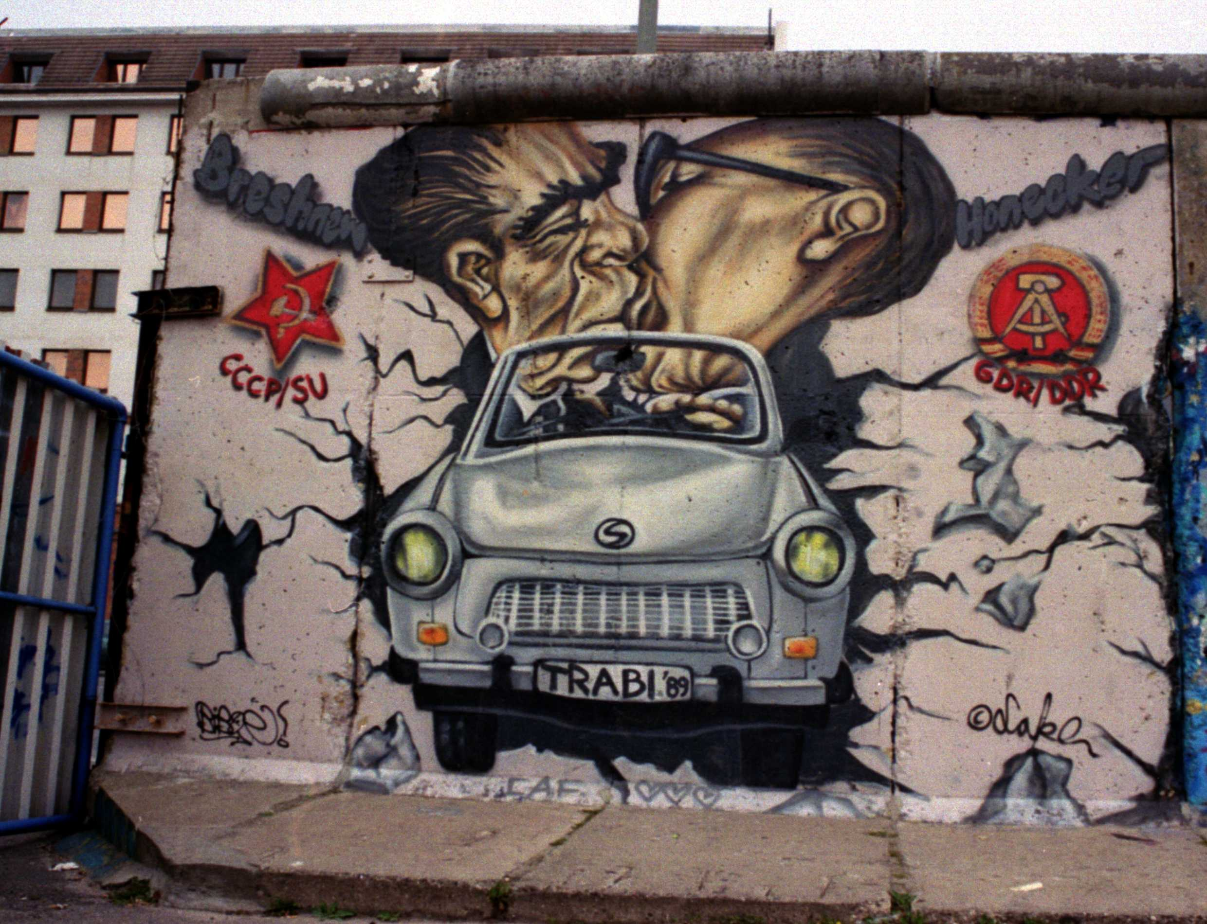 Mural on the Berlin Wall at the East Side Gallery featuring Leonid Brezhnev and Erich Honecker riding together in an East German Trabant (Spring 2002). Photo by Peter Rimar.